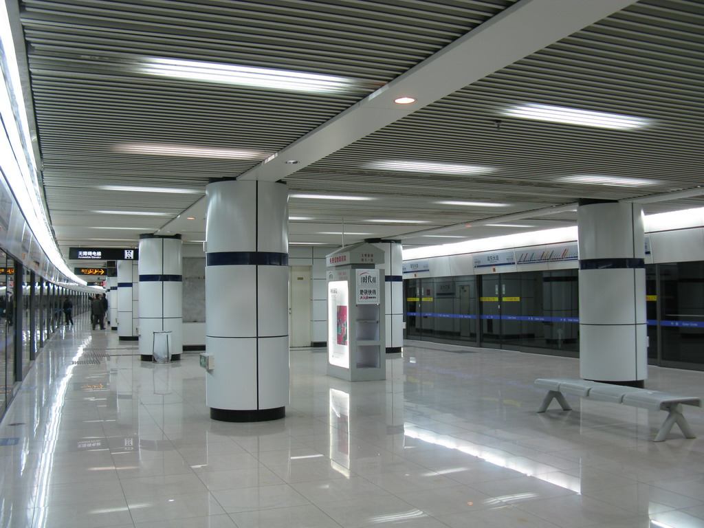 Line 4 Platform of Pudong Avenue Station